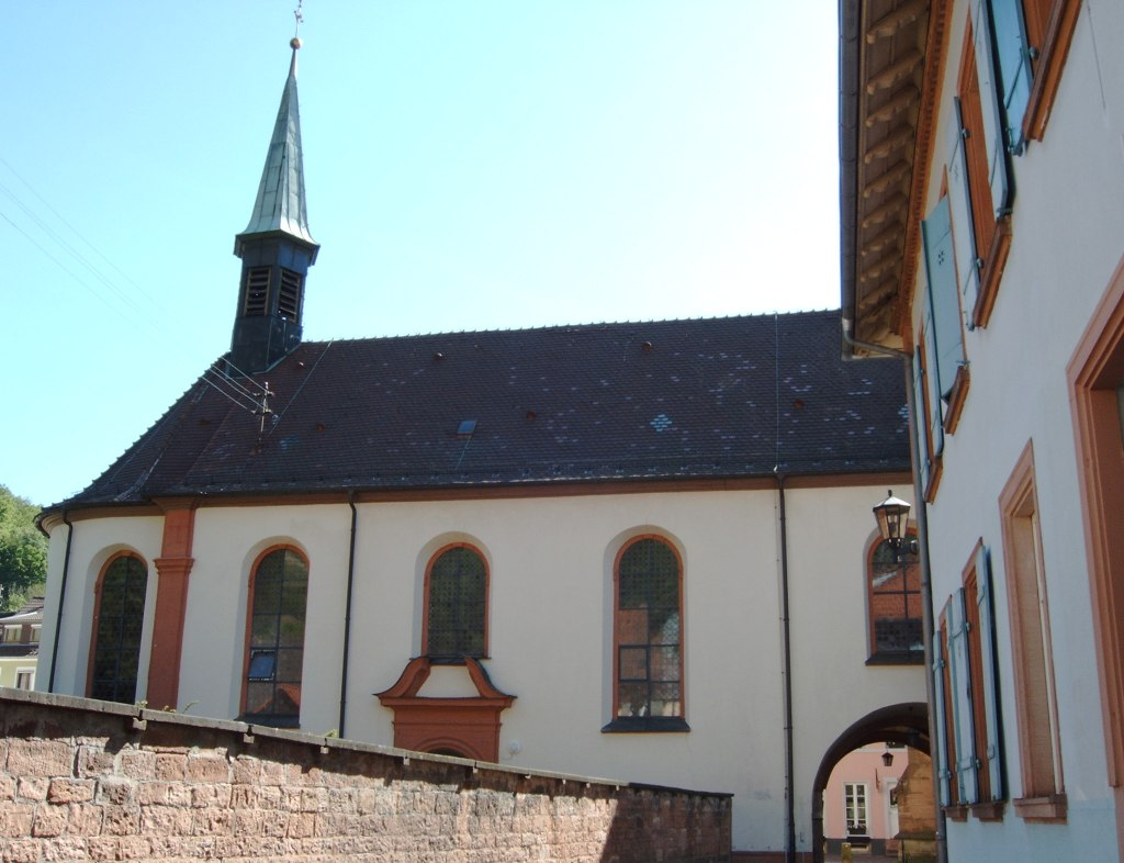 Church in Schönau (Odenwald)